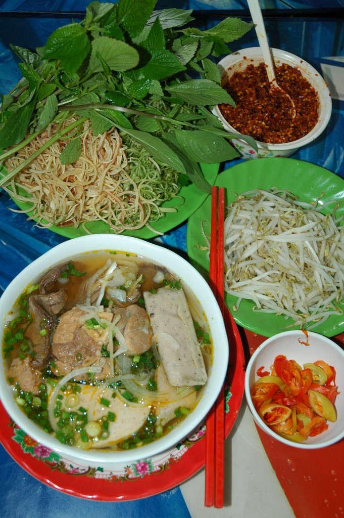 Yummy Bun Bo Hue from the junction of Tran Dinh Xu and Nguyen Cu Trinh streets in District 1, Sai Gon.